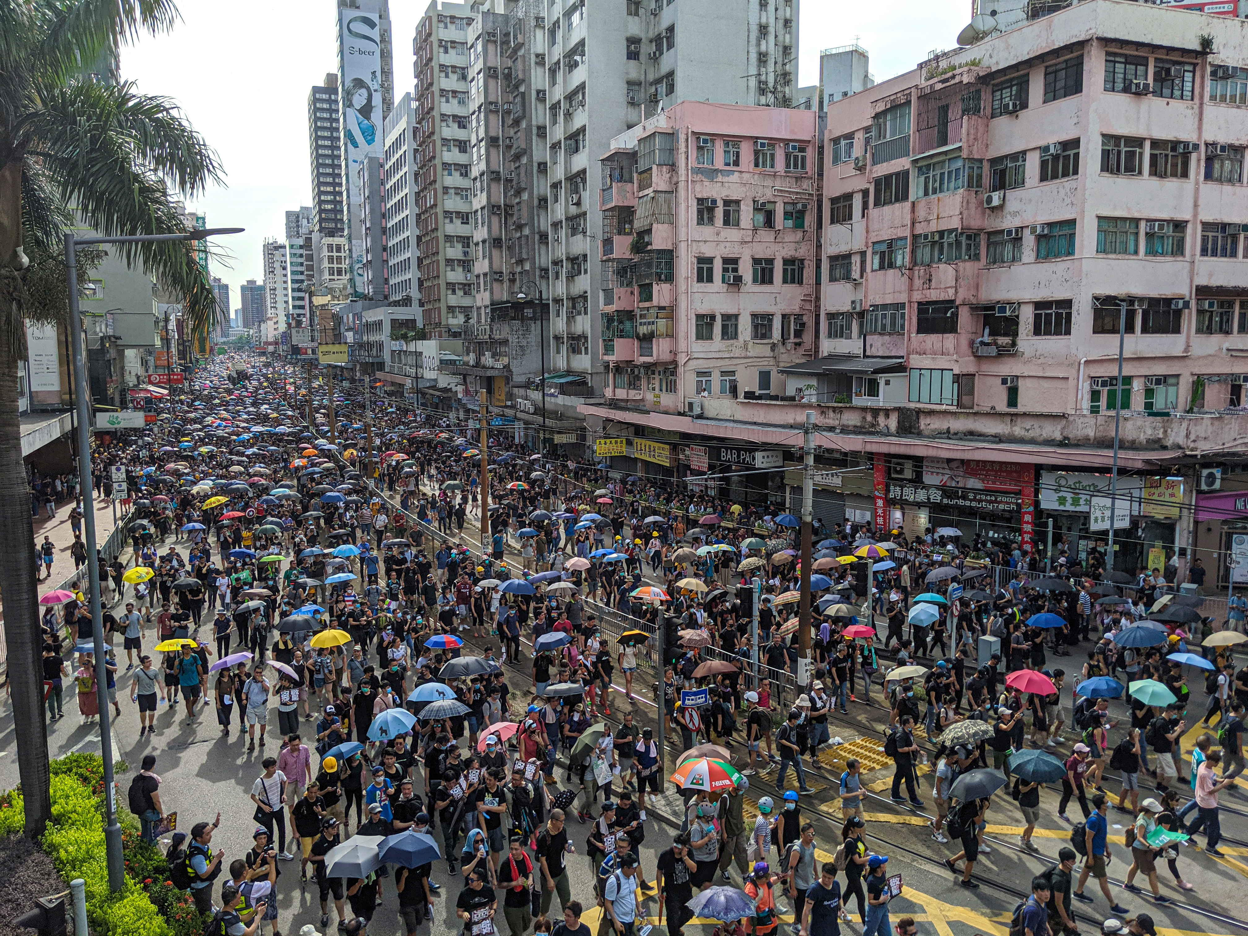 中文（中国大陆）: 2019 Hong Kong anti-extradition law protest on 27 July 2019, captured by Studio Incendo from Flickr.